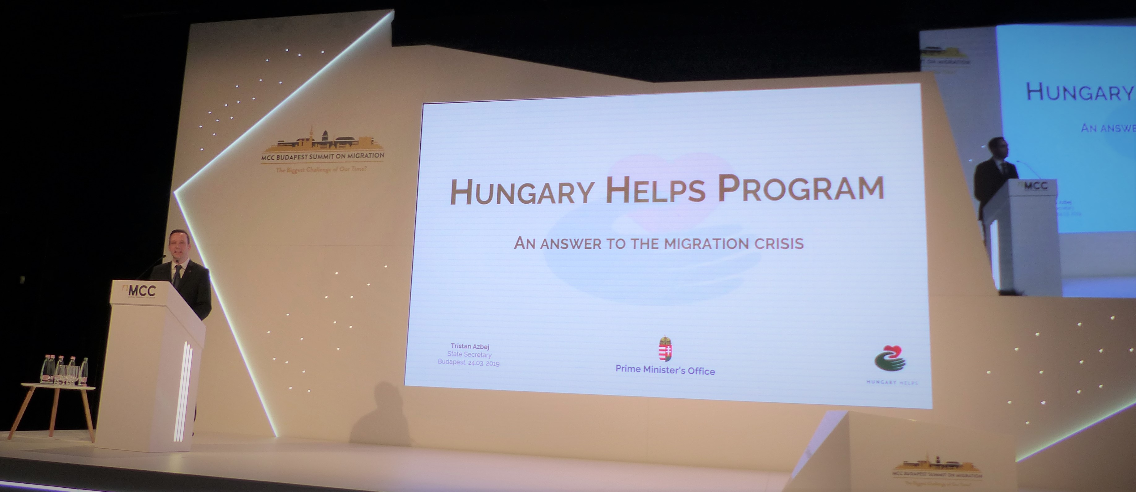 Tristan Azbej. Minister of State for helping persecuted Christians and implementing the Hungary Helps Programme at the Prime Minister's Office of Hungary. MCC Budapest Summit on Migration, third day, on the 24th of March, 2019.